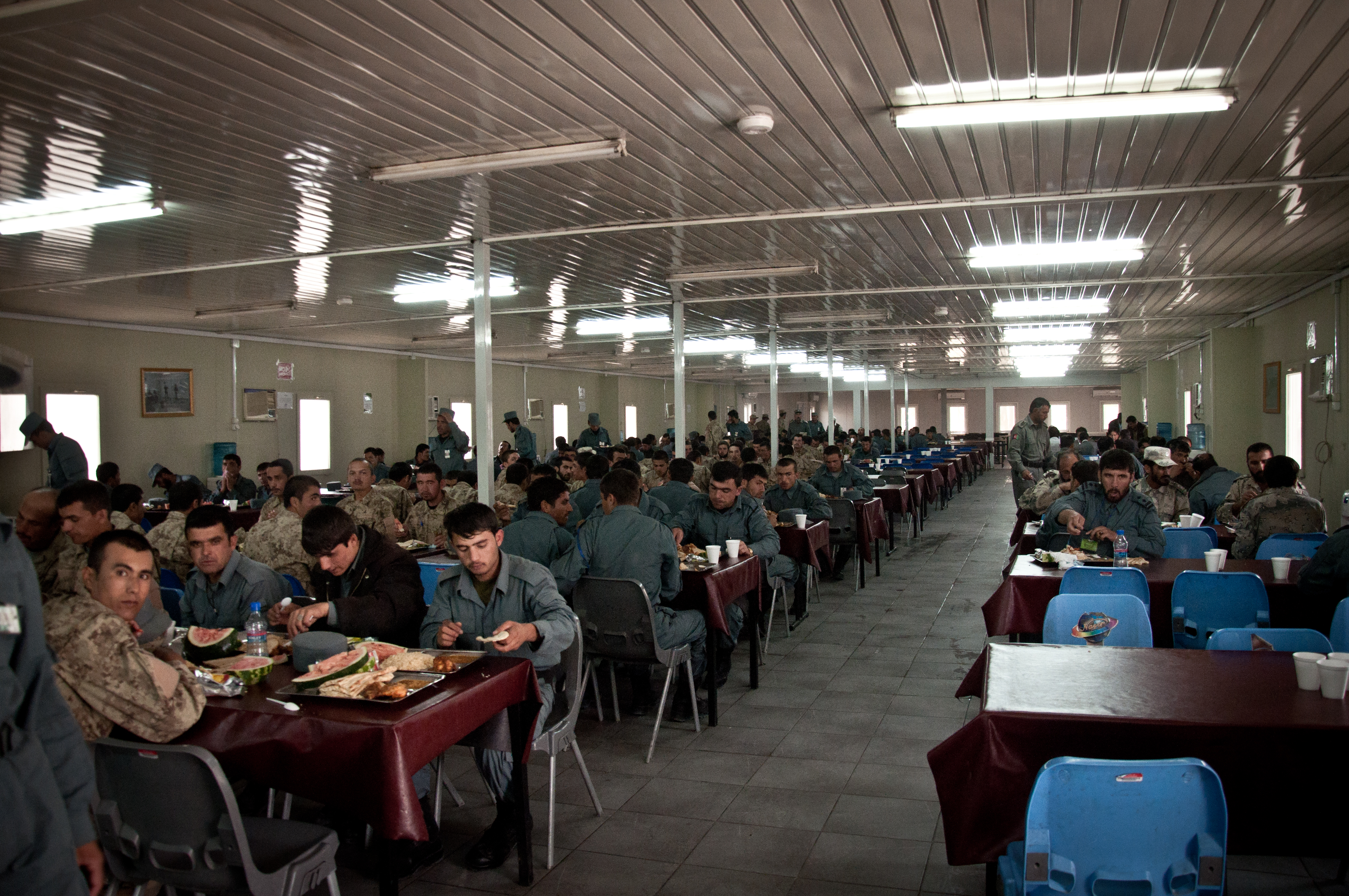 Afghan National Police cadets enjoy a meal at the Kabul's training center Student Dining Facility (DFAC).